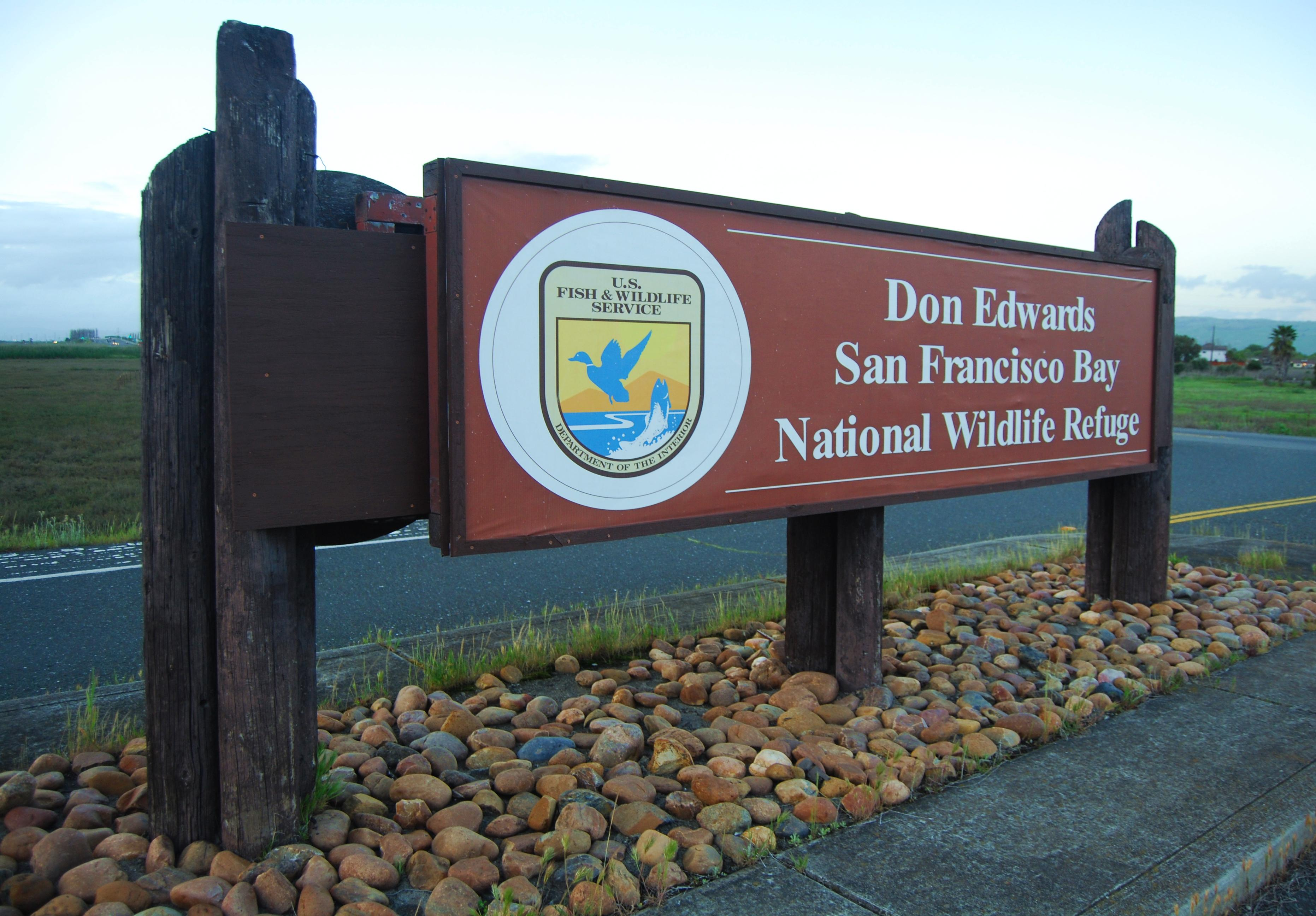 The sign at the entrance to Don Edwards San Francisco Bay National Wildlife Refuge.